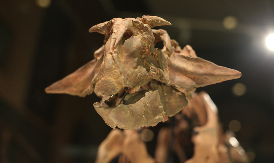 Psittacosaurus sibiricus at a temporary exhibition of the Orlov Museum of Paleontology in Moscow, "Psittacosaurus sibiricus", held from 7 December 2016 to 31 May 2017.